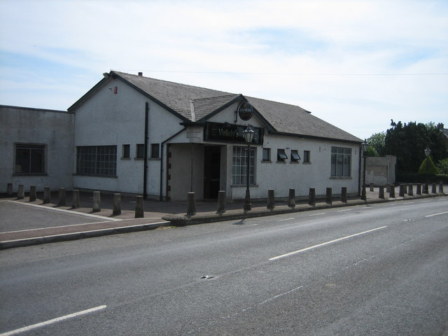 Vallely's Bar. On the B28 in the townland of Ardress.